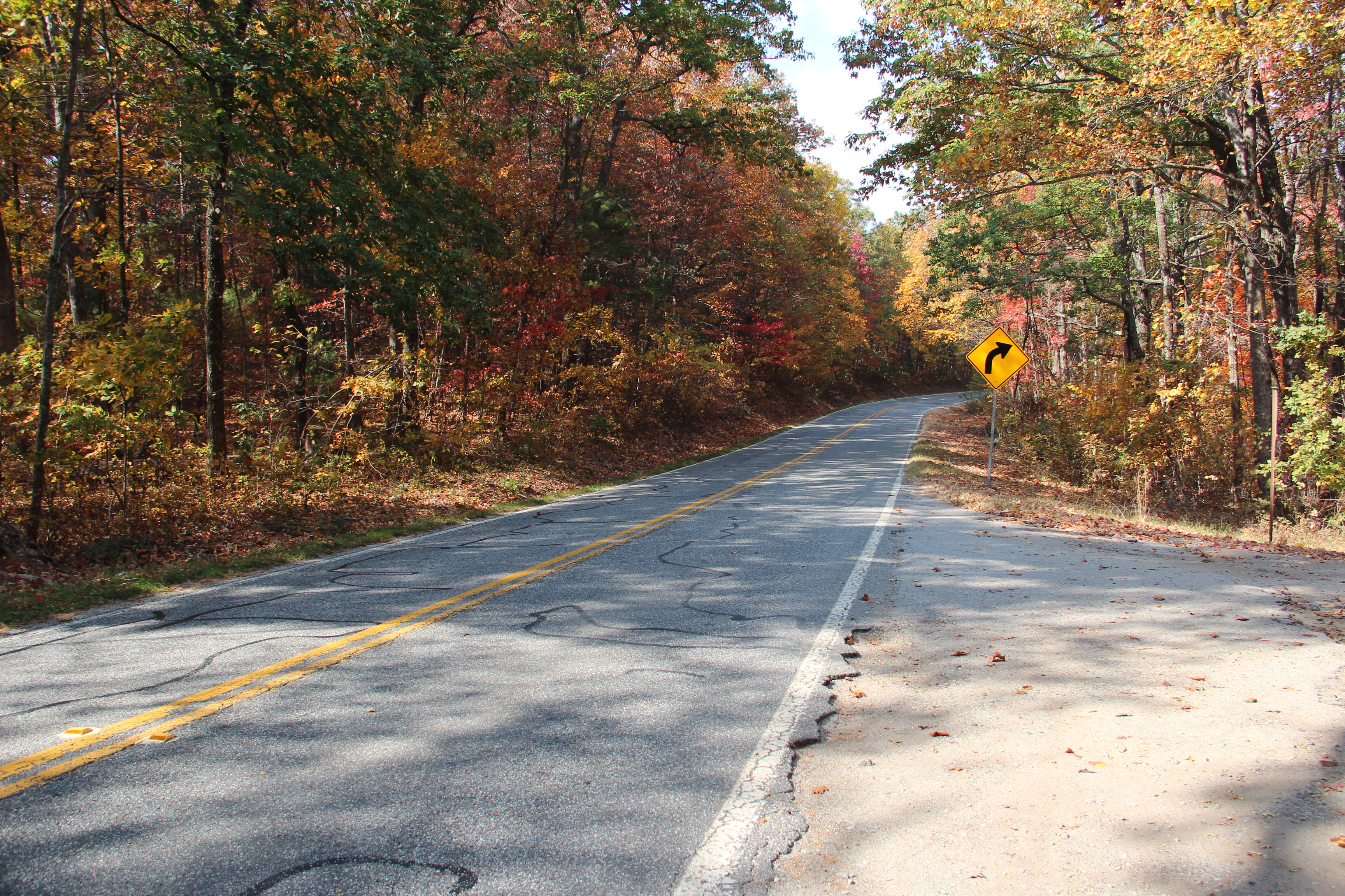 Georgia State Route 60 in Lumpkin County, near the Chestatee Overlook